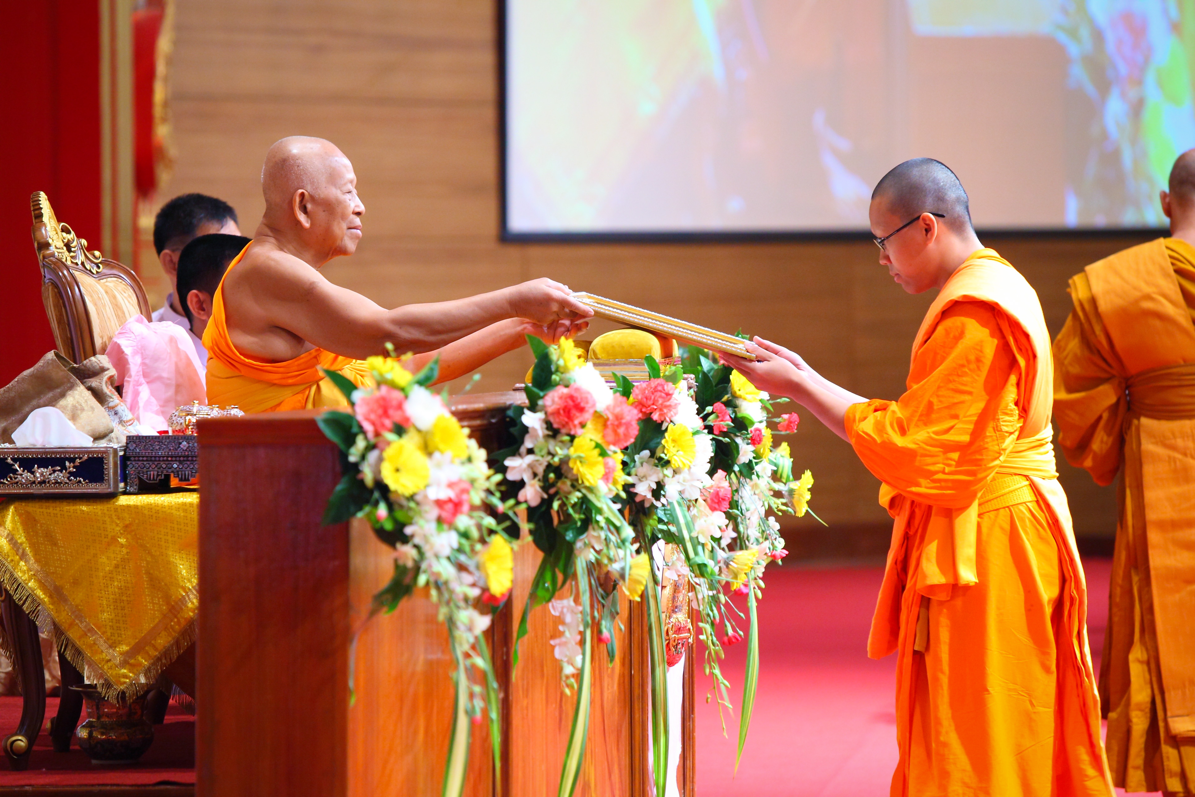 มหาวิทยาลัยมหาจุฬาลงกรณราชวิทยาลัย Mahachulalongkornrajavidyalaya University